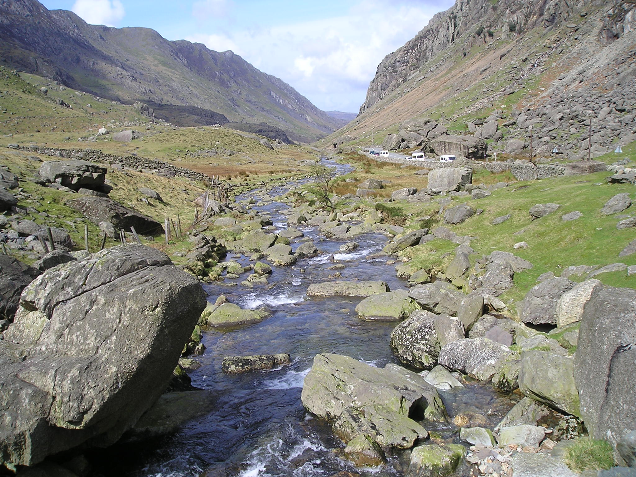 Taken by me, Noel Walley on 12/04/2005